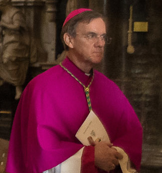 Evensong commemorating the centenary of the birth of Blessed Oscar Romero at Westminster Abbey, London, on 23 September 2017